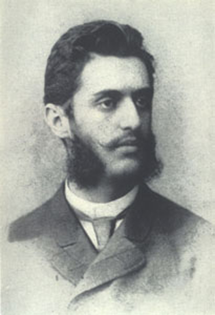 Theodor HerzlAfter finishing his studying at the university, he was titled doctor of law degree and he began working as an apprentice at court.